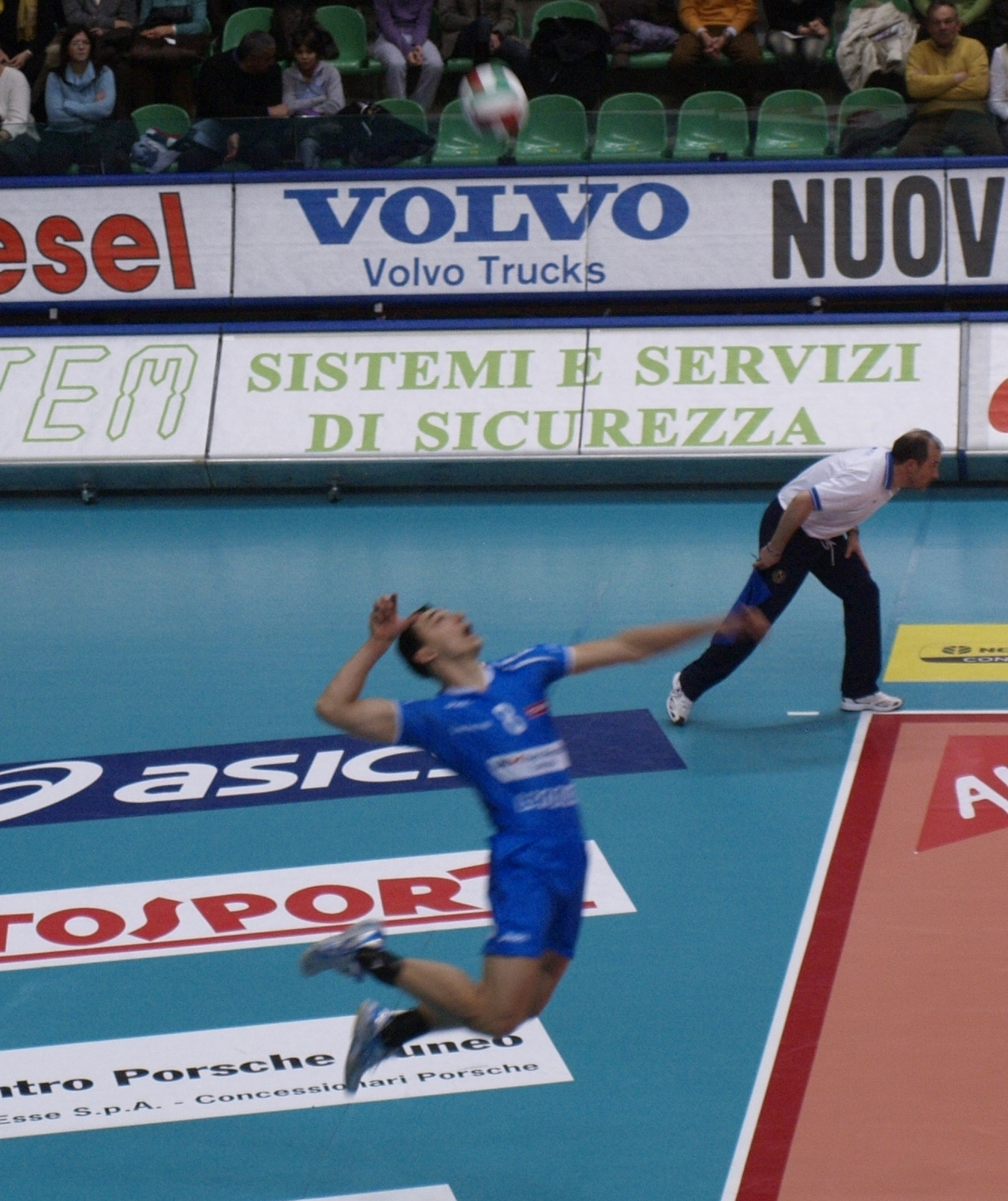 Vladimir Nikolov, a volleyball player from Bulgaria